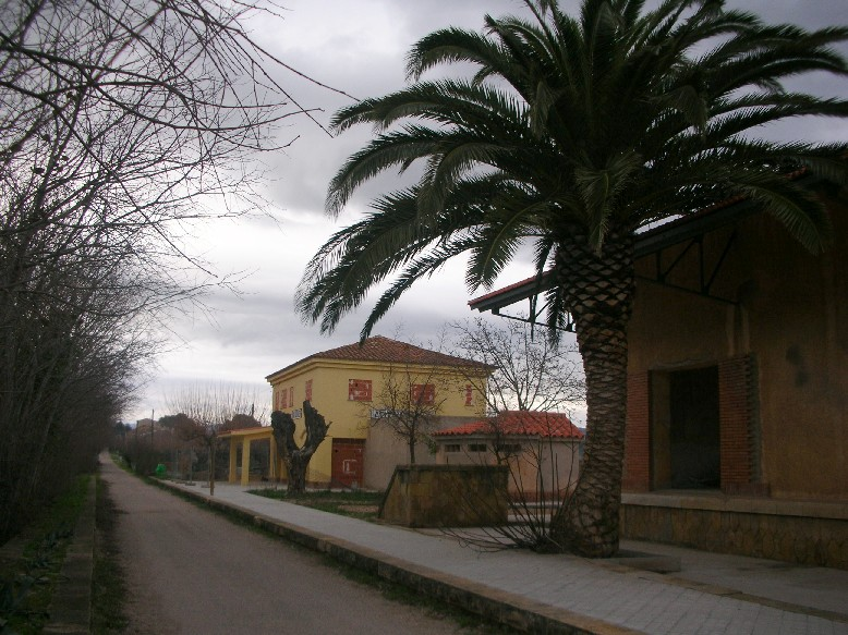 Abandoned railway station at Aldover, north of Tortosa